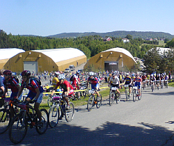 First hill upp from the start on Raumerrittet